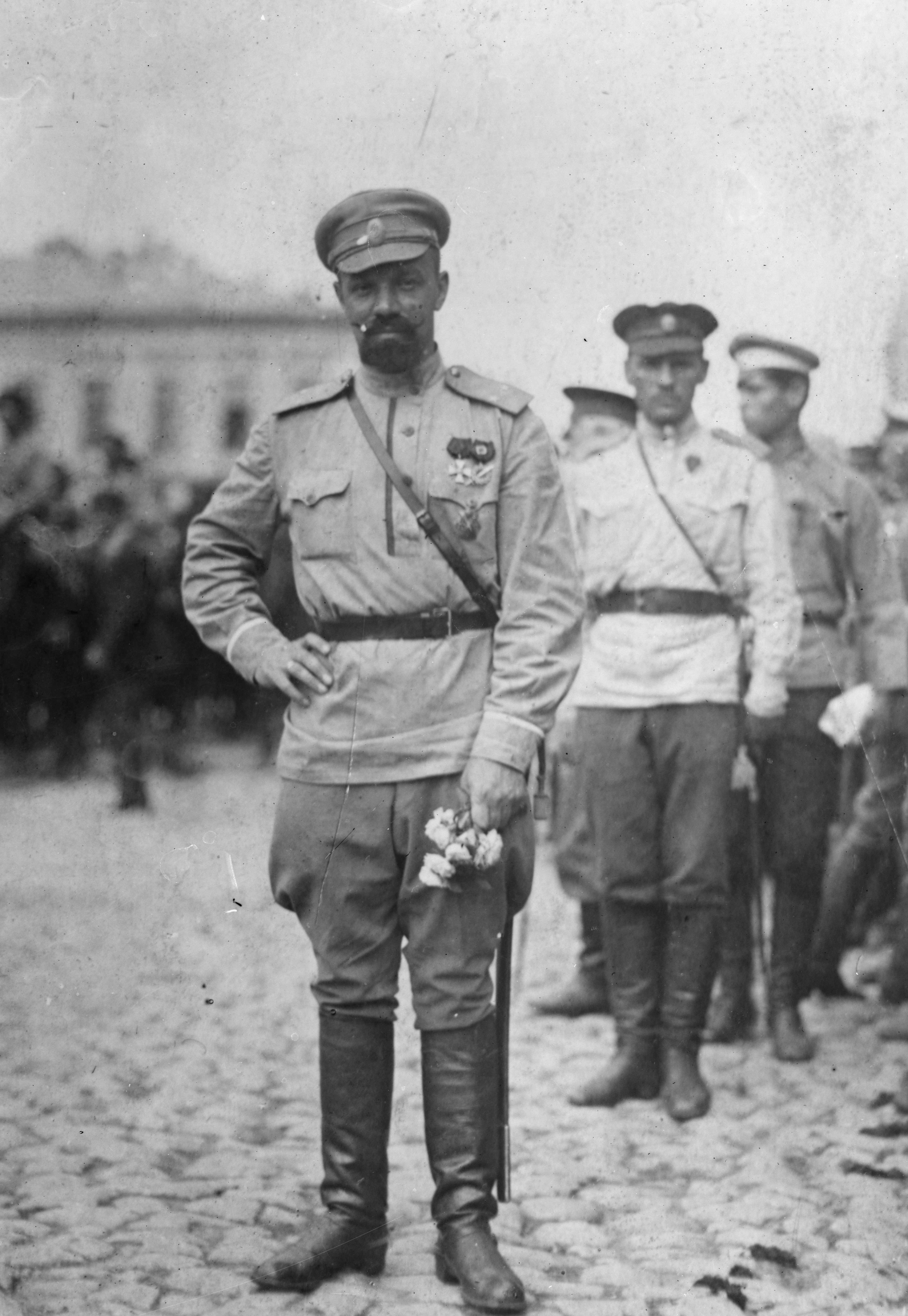 General Koutepoff, Commander of the 1st. Army Corps. (Volunteer Army)